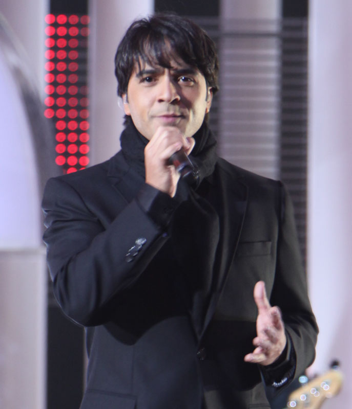 Luis Fonsi singing at Nobel Peace Prize in Oslo on December 9, 2009.